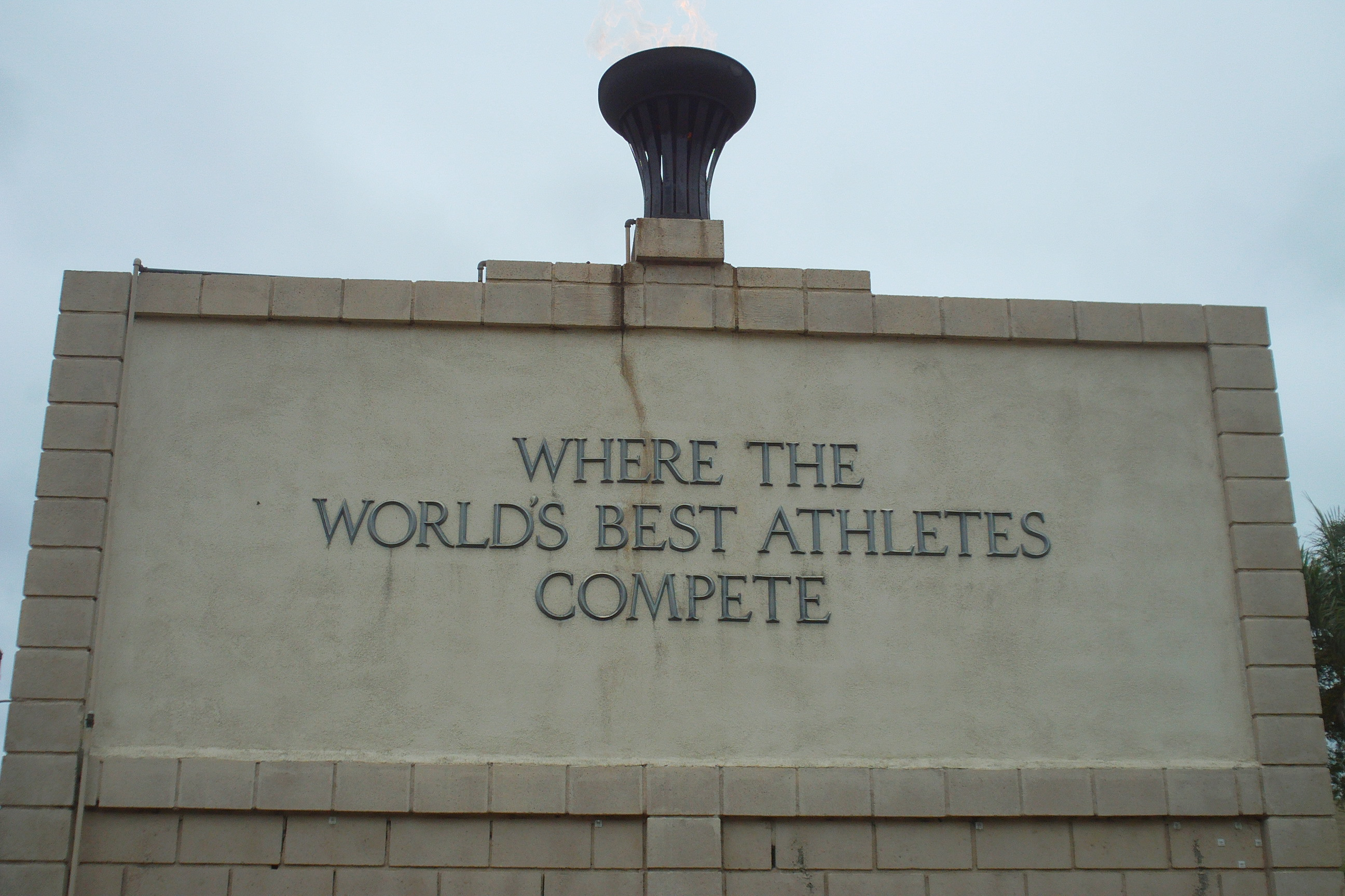 Olympic flame and slogan at Mt. San Antonio College